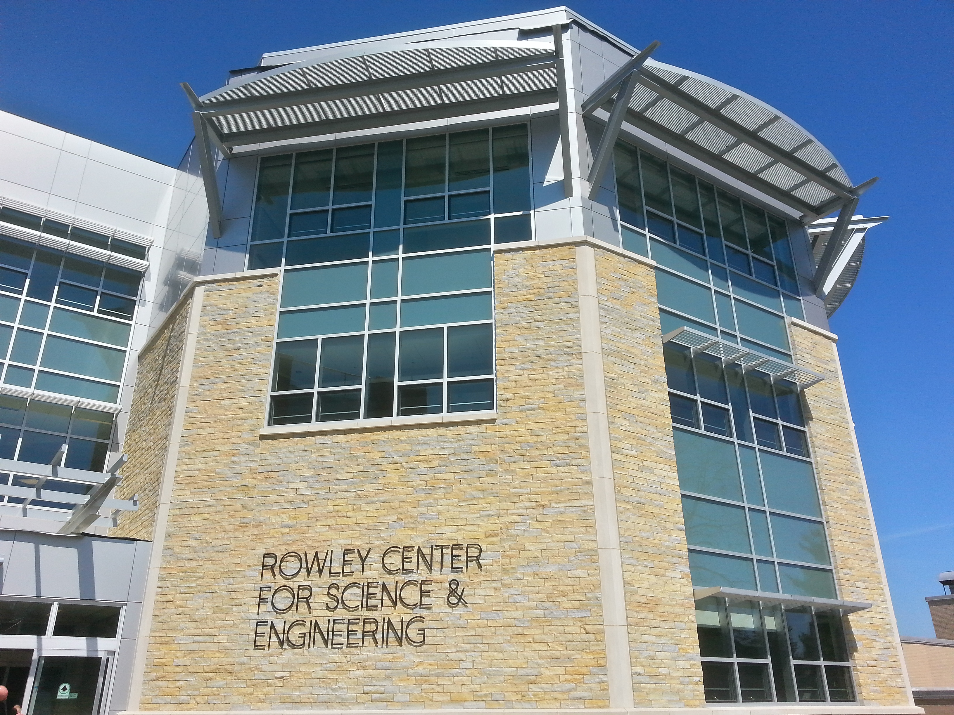 The Rowley Center for Science and Engineering, at the Middletown Campus of SUNY Orange.